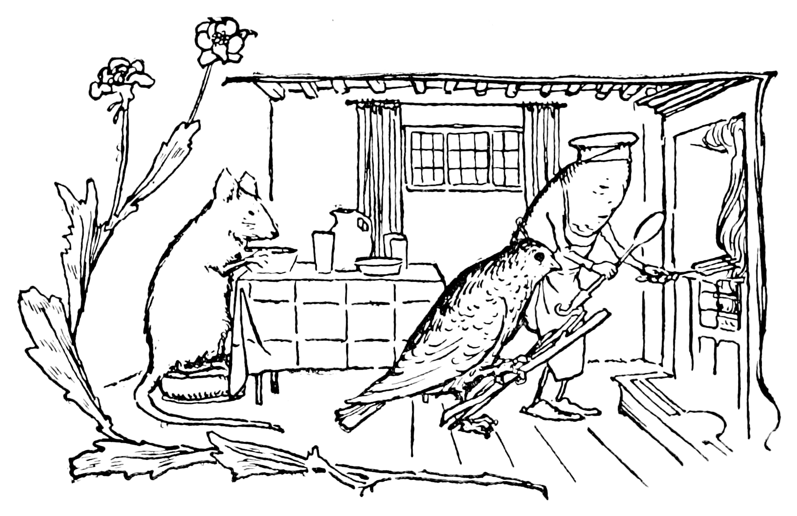 Illustration from a book of fairy tales